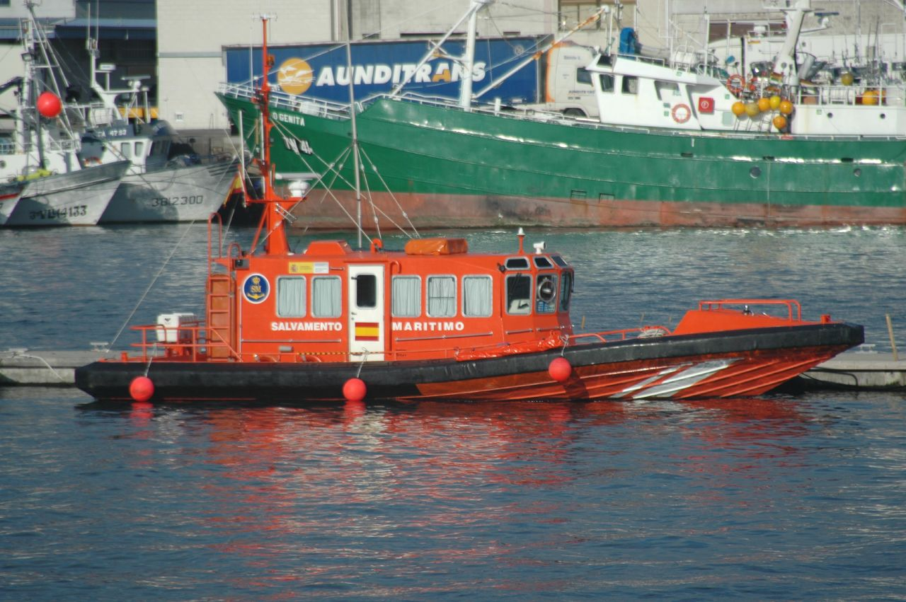 Salvamar Sargadelos in Ribeira